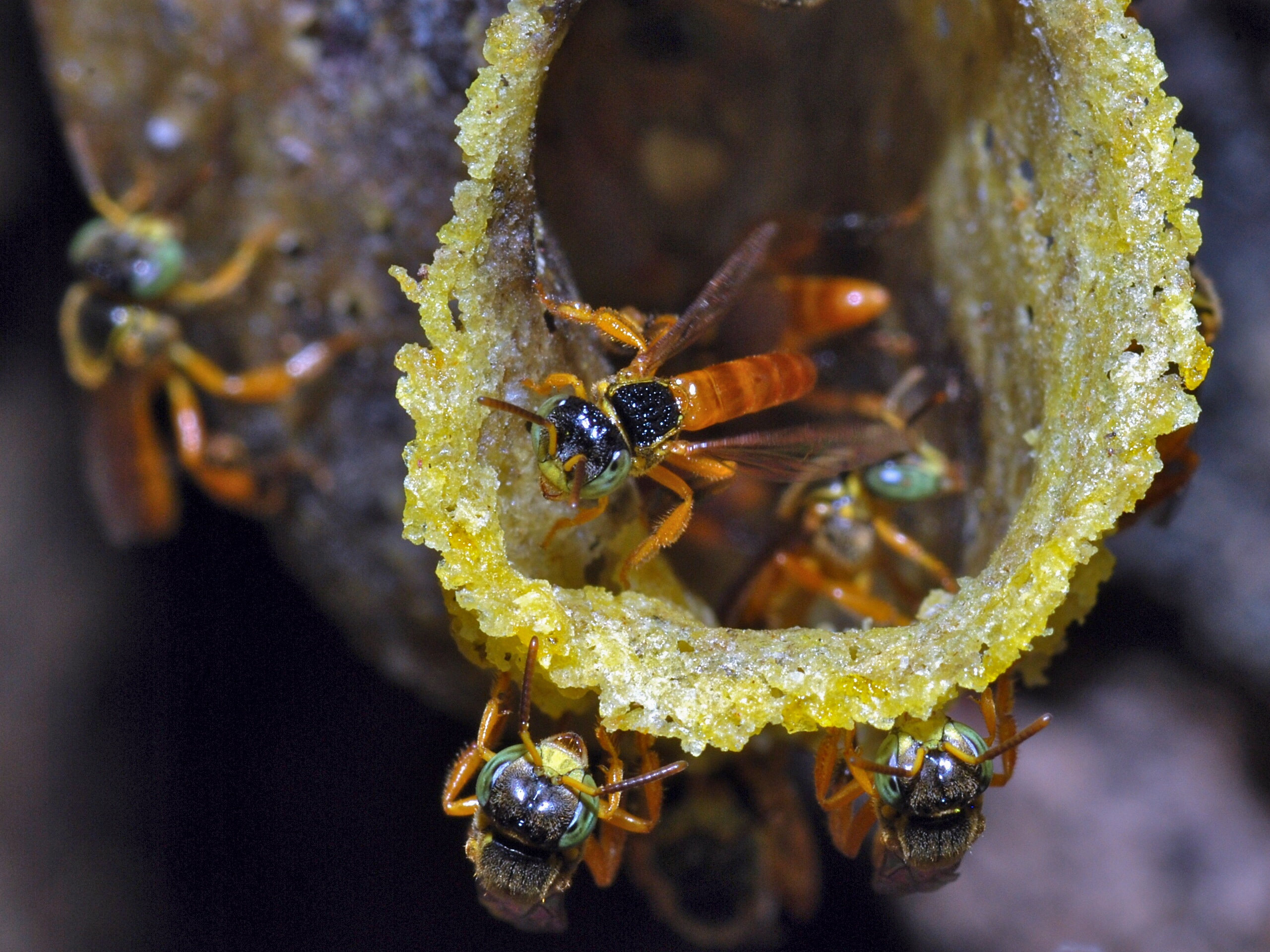 Cockscomb Wildlife Sanctuary, BELIZE